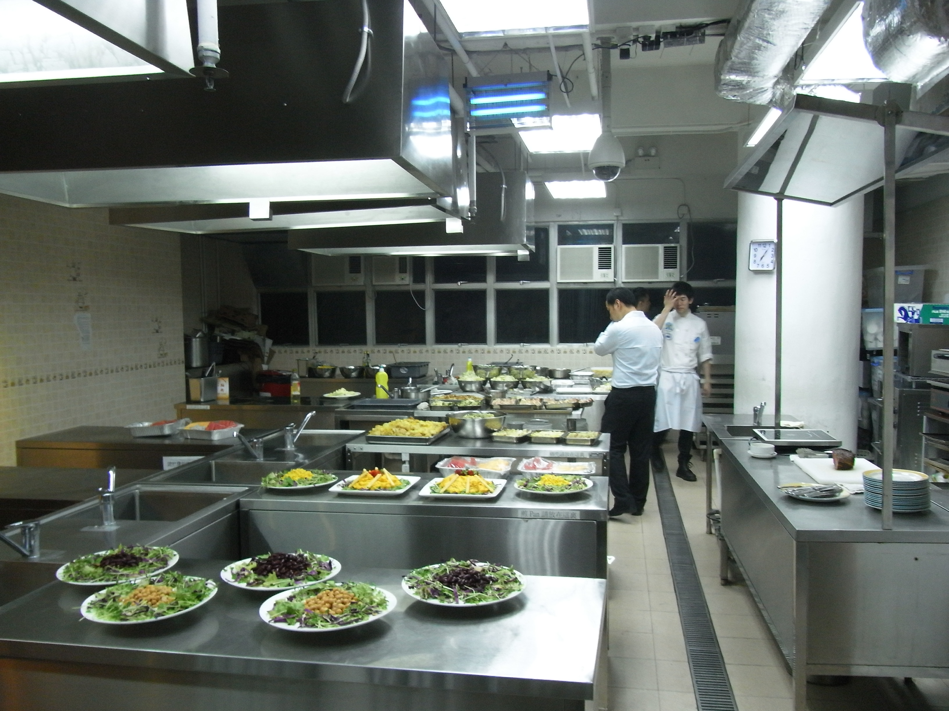 香港廚師學校, Hong Kong Chef School, North Point, Hong Kong